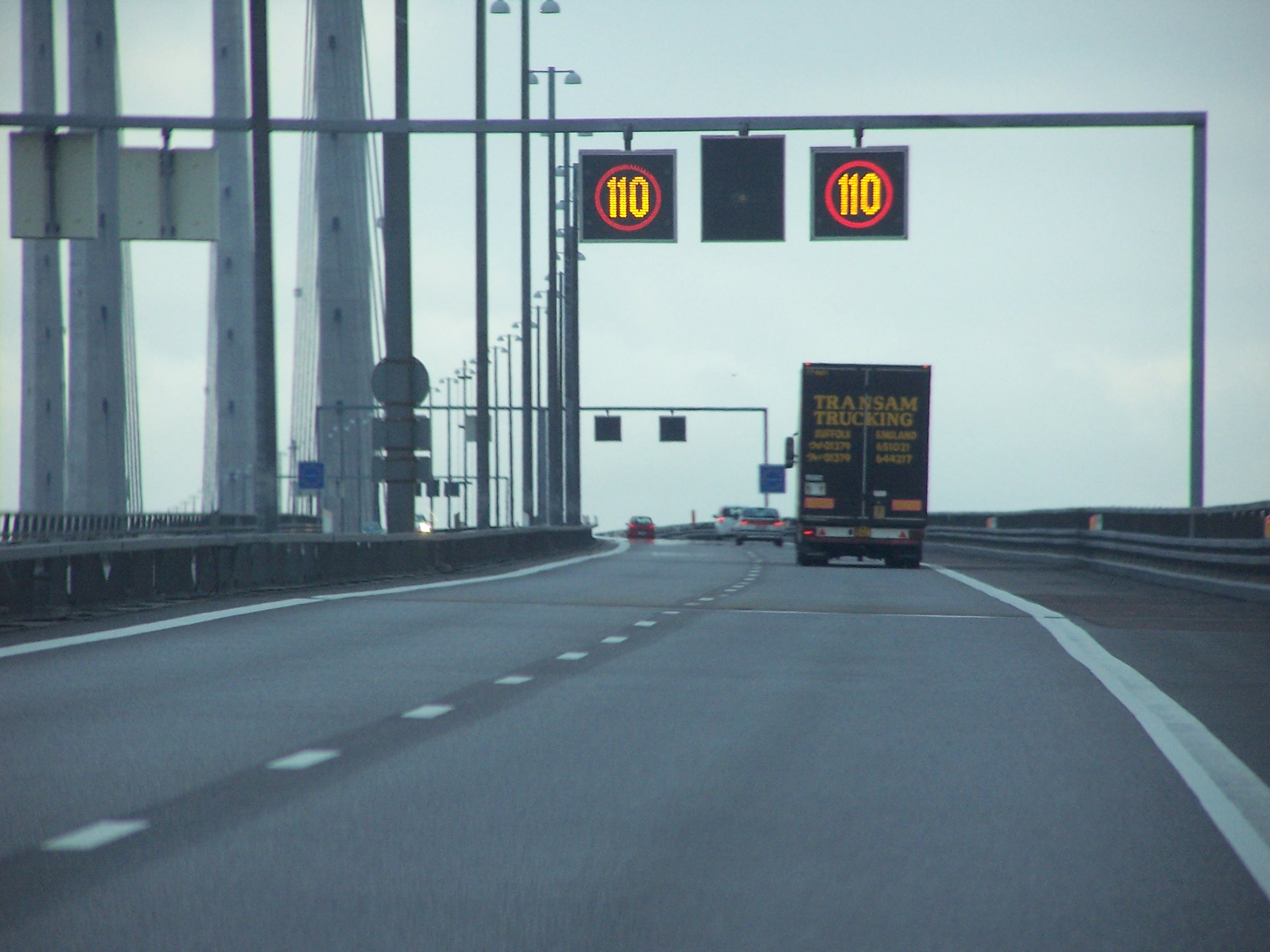 Speed limit signs on the Oresund Bridge The two outer displays shows the current allowed speed (km/h) on the bridge. The center display can show e.g. a warning sign about tailback. Note, the photo is taken on the Danish part of the bridge, but the signs showing the border to Sweden are visible in the background.